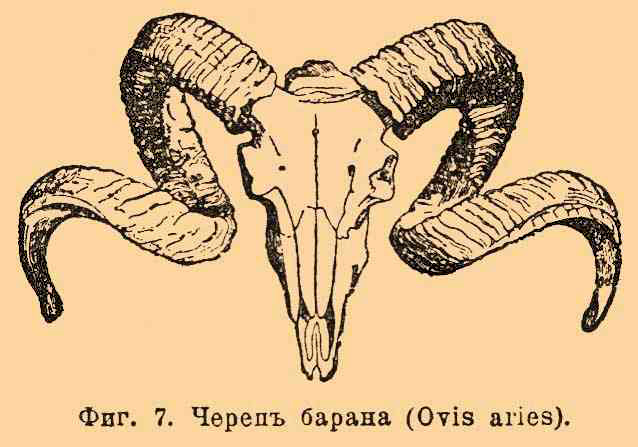 Skull of Ovis aries